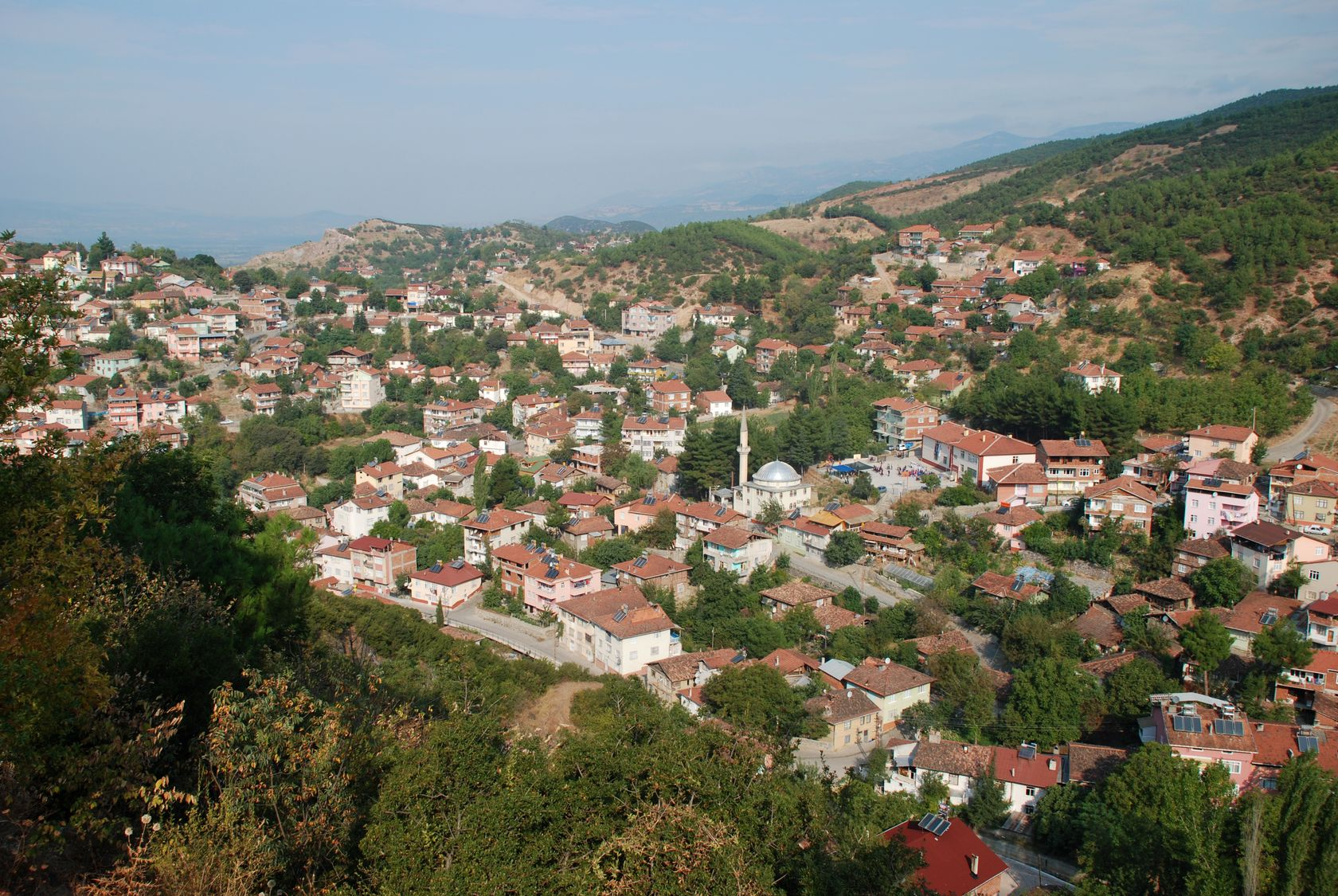 Niksar, Tokat province, city north of the citadel